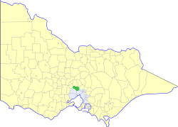 Location of the Shire of Bulla within Victoria.